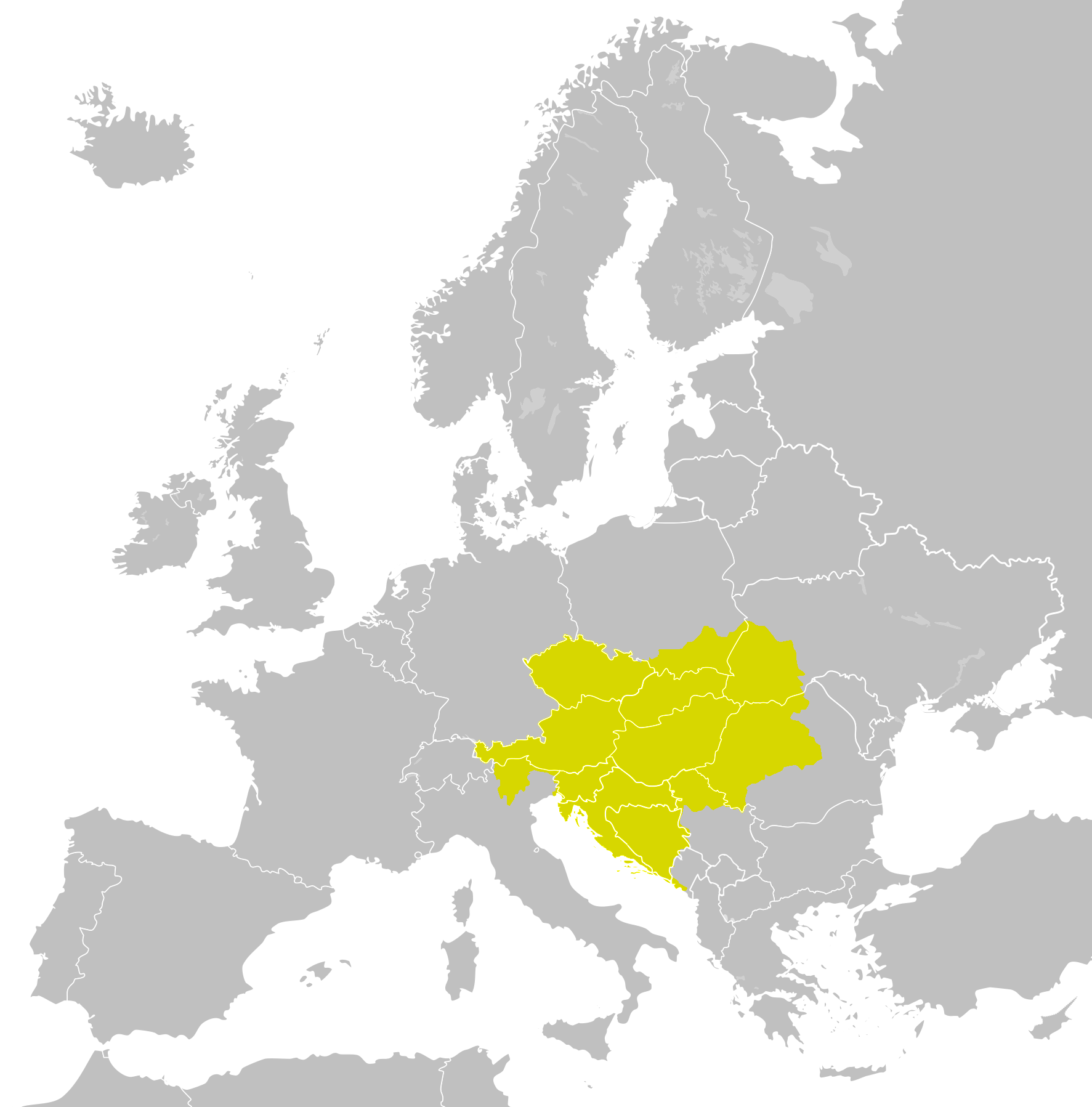 Austro-Hungarian Monarchy (1914) over present map of Europe (2008)